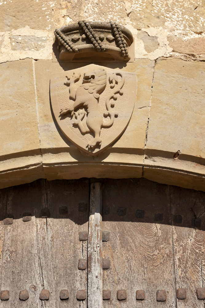 Object location41° 53′ 01.14″ N, 1° 16′ 40.01″ E